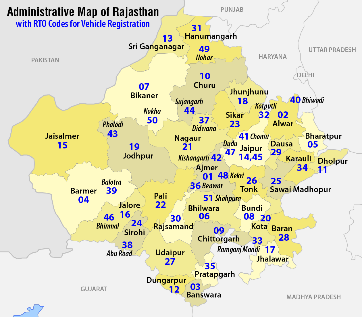 Administrative map of Rajasthan with RTO Codes for Vehicle Registration